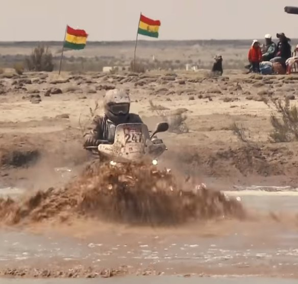 Dakar 2017. Stage 8. Utuni-Tupiza. Czech quad pilot Josef Machácek crossing a river (vado).